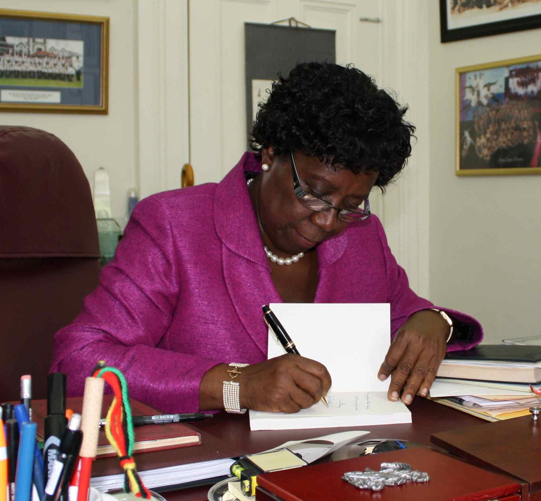 Dame Pearlette Louisy at her desk at Government House in Castries, St. Lucia